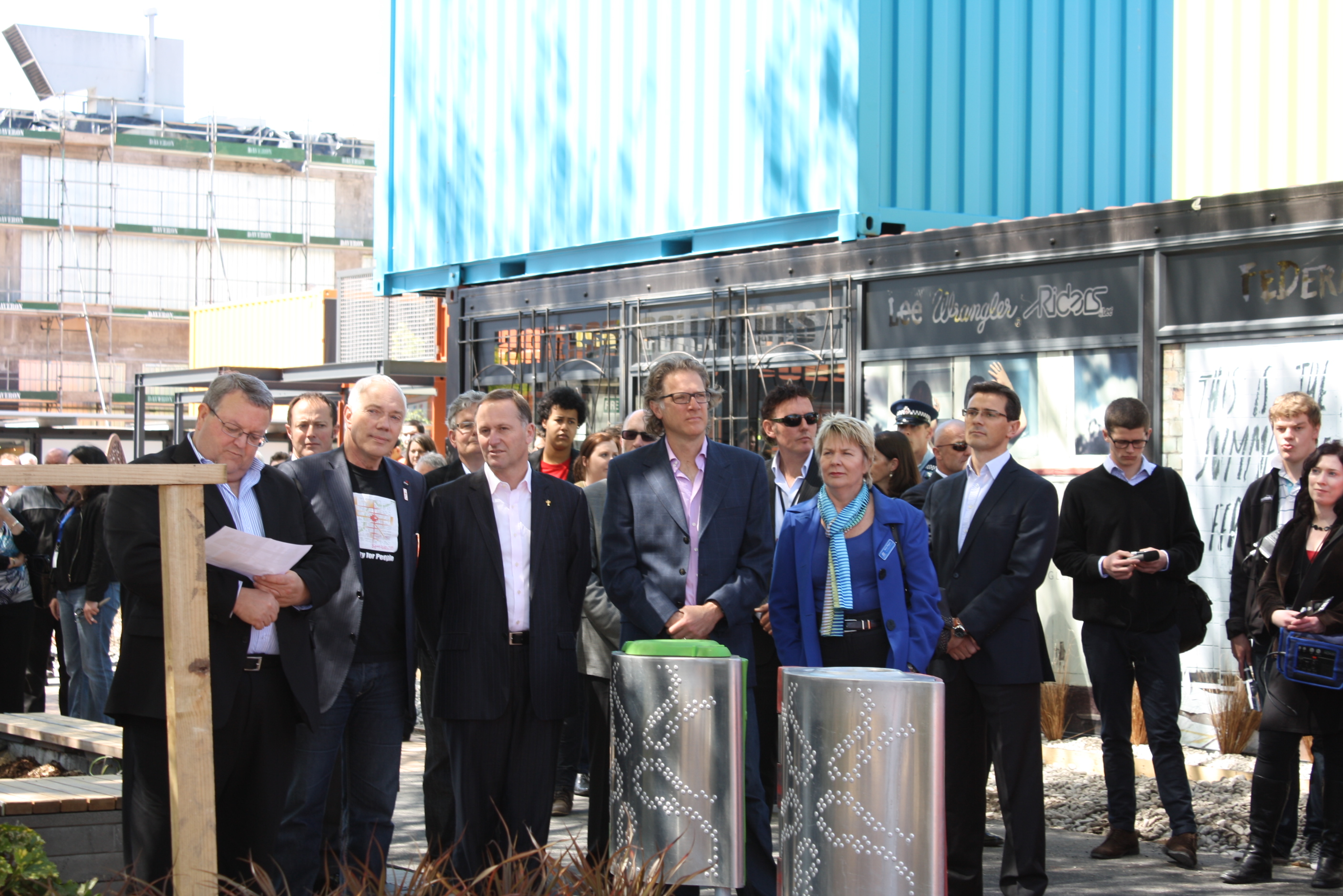 City Mall opening with some dignitaries (from left): Gerry Brownlee, Bob Parker (mayor), John Key (Prime Minister), Brendon Burns (electorate MP; obscured by Key), Roger Sutton (CEO of Cera), Paul Lonsdale (Central City Business Association executive; in background); Nicky Wagner (list MP), unknown.